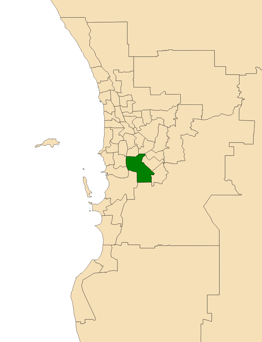 Location of the electoral district of Jandakot in the Perth metropolitan area, Western Australia as of the 2017 WA state election.